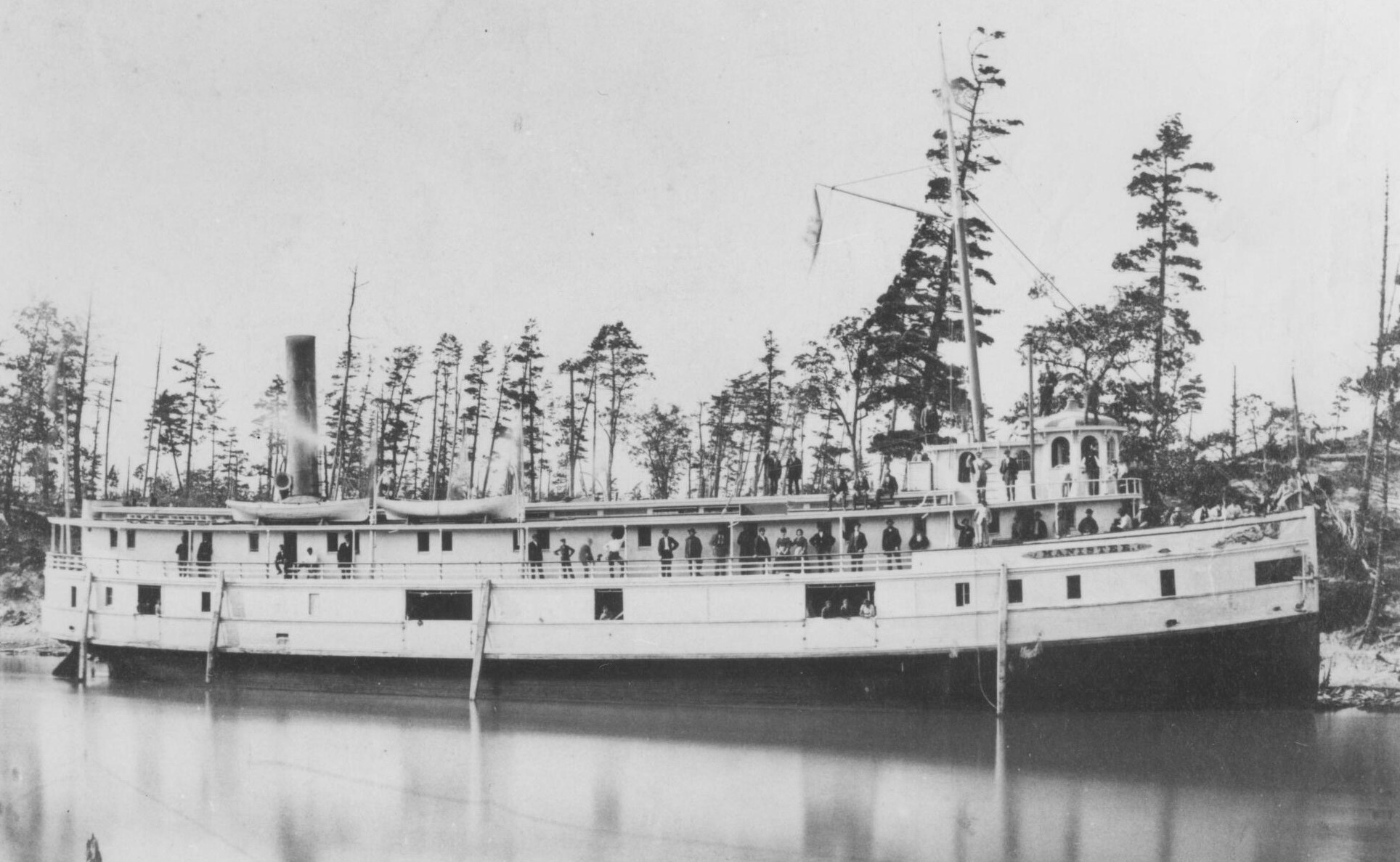 The steamer Manistee before she disappeared